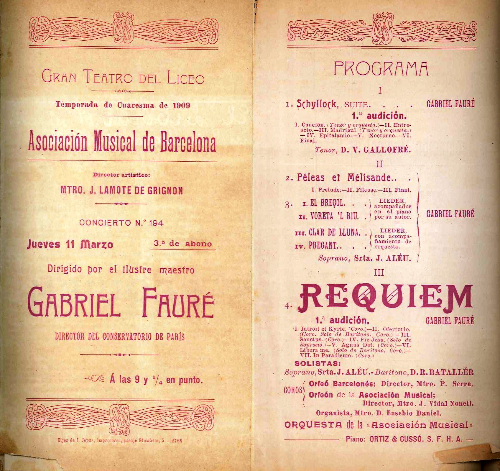 Program sheet of the concert held at Liceu theater in Barcelona (march 11th, 1909) conductet by Gabriel faure where was played his "Requiem"